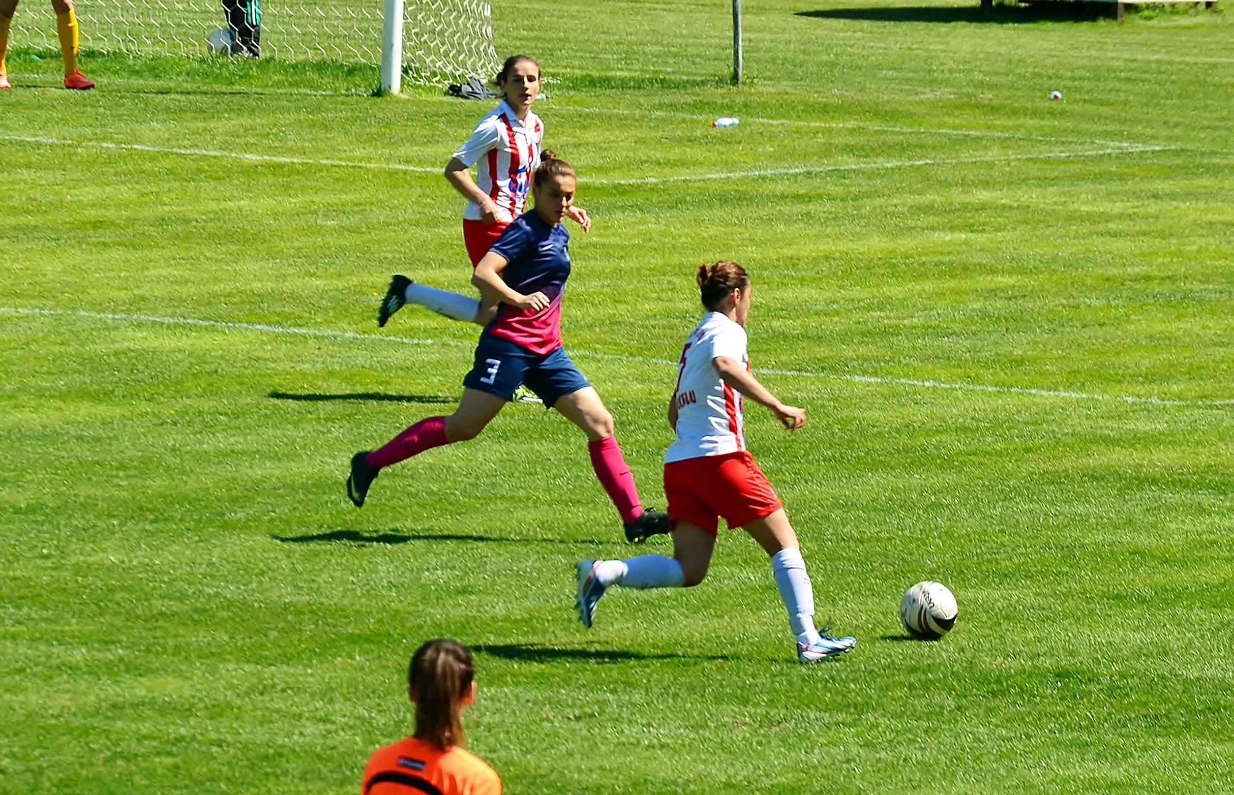 Didem Karagenç (navy-red) playing for Konak Belediyespor in the 2014-15 season